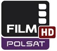 Polsat Film HD